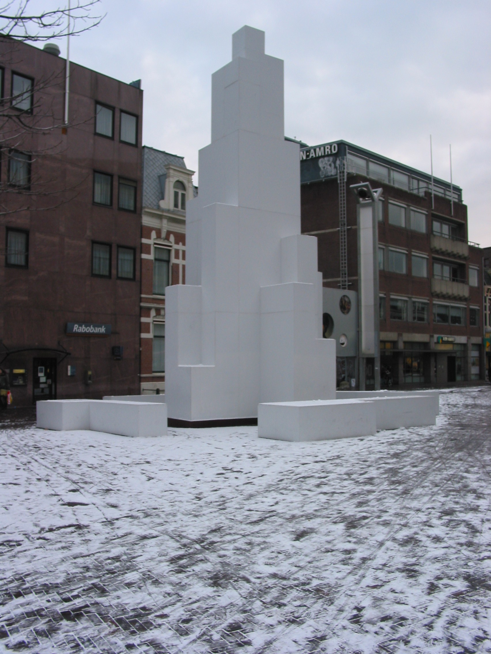 Replica of the monument on Station Square in Leiden.